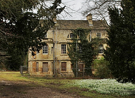 Bramham Biggin, an empty Grade II* listed house in Bramham Park near Wetherby.